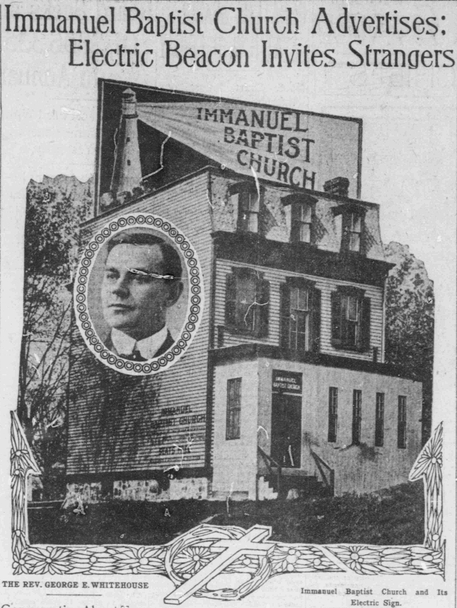 Immanuel Baptist Church (today National Baptist Memorial Church) at the corner of 16th Street and Columbia NW, Washington, D.C., erects an electric light billboard, reported in the Washington Times, 13 October 1907, Chronicling America: Historic American Newspapers. Library of Congress